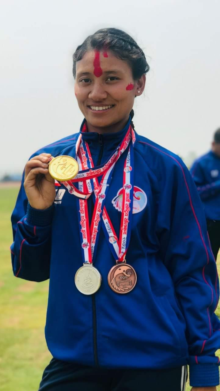 southasian games 2019 gold medal winner santoshi shrestha